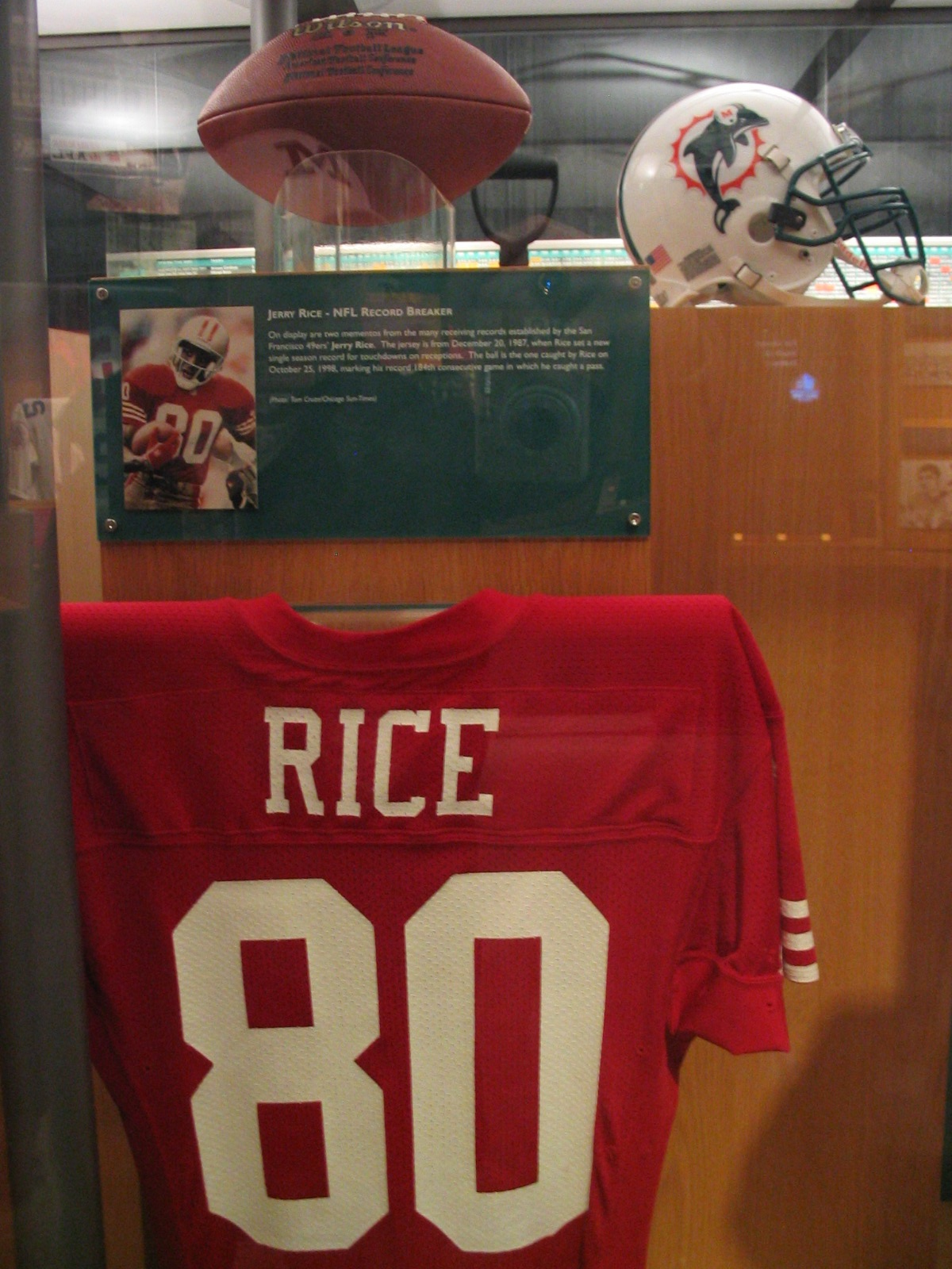 Jersey number 80 of Jerry Rice (49ers)